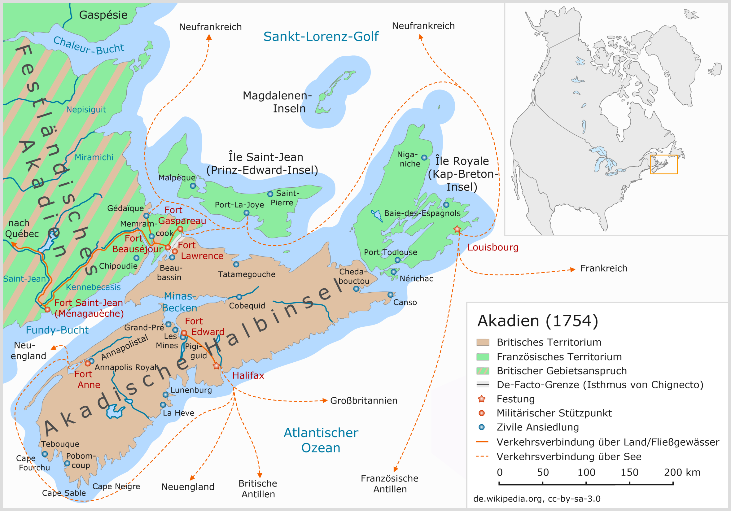 Acadia (1754)